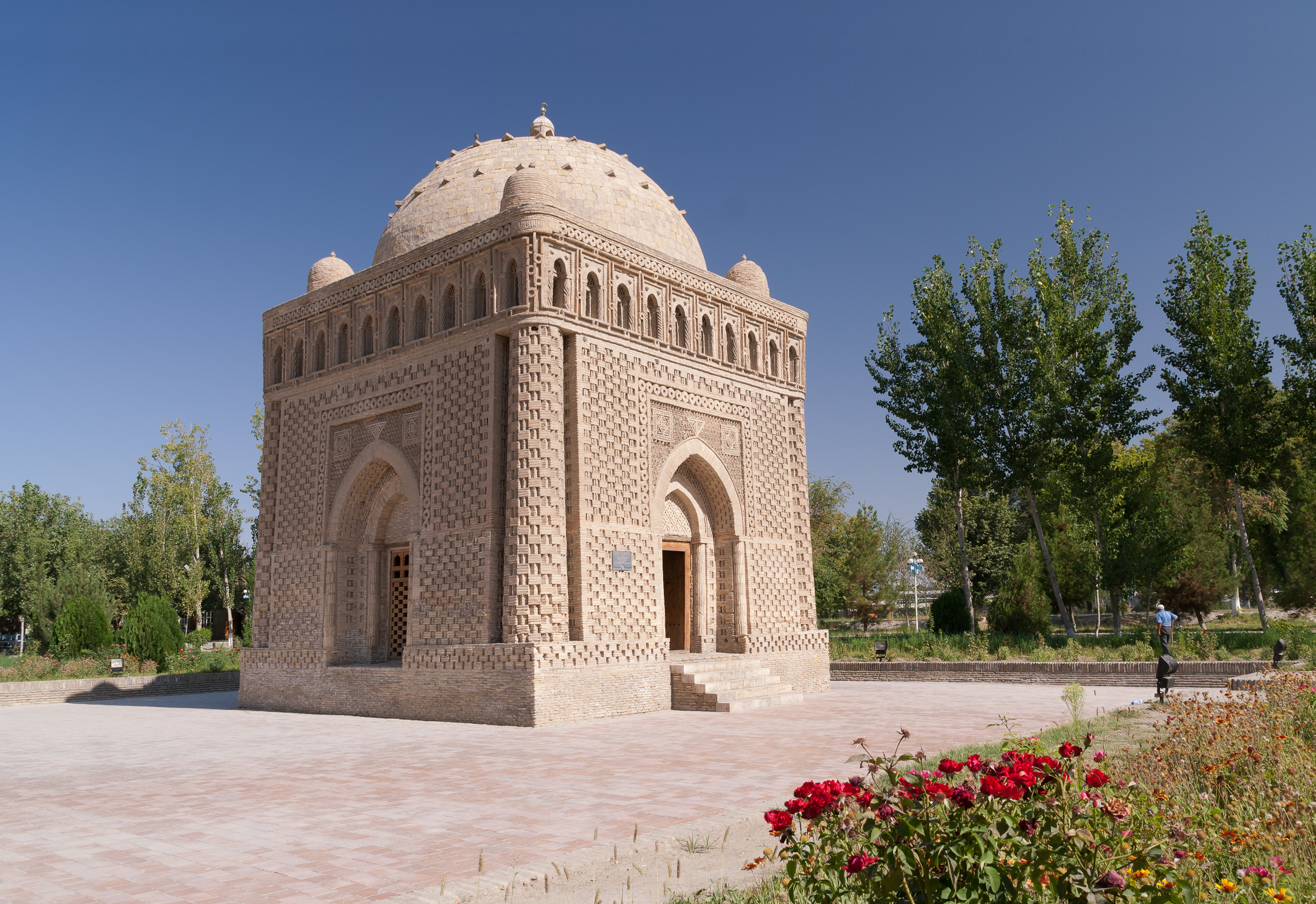 Samanid Mausoleum in Bukhara, Uzbekistan